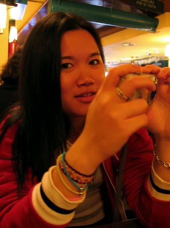 Emily Chang in 2005